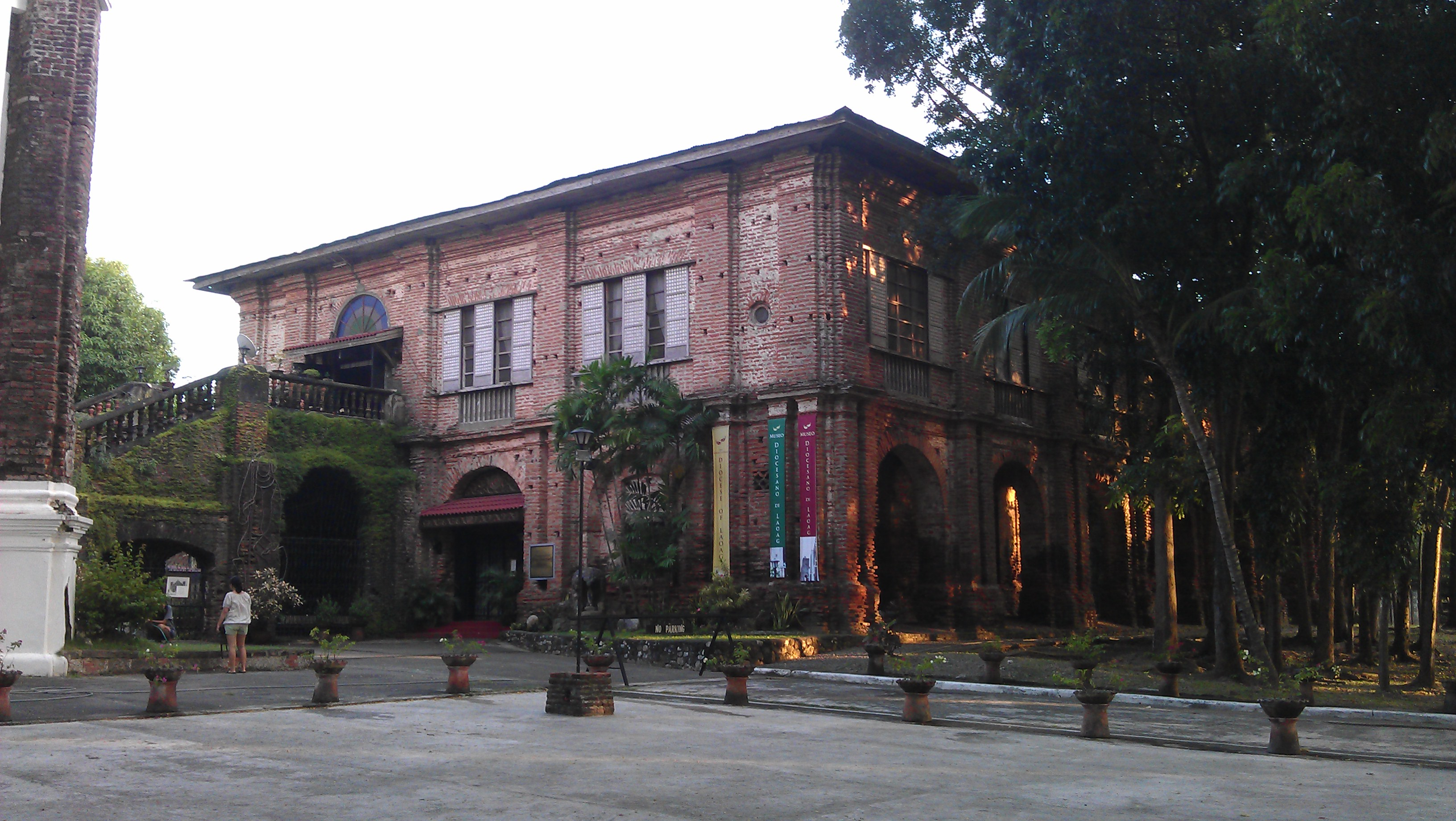 Local parish Museum of Santa Monica in Sarrat, Ilocos Norte.